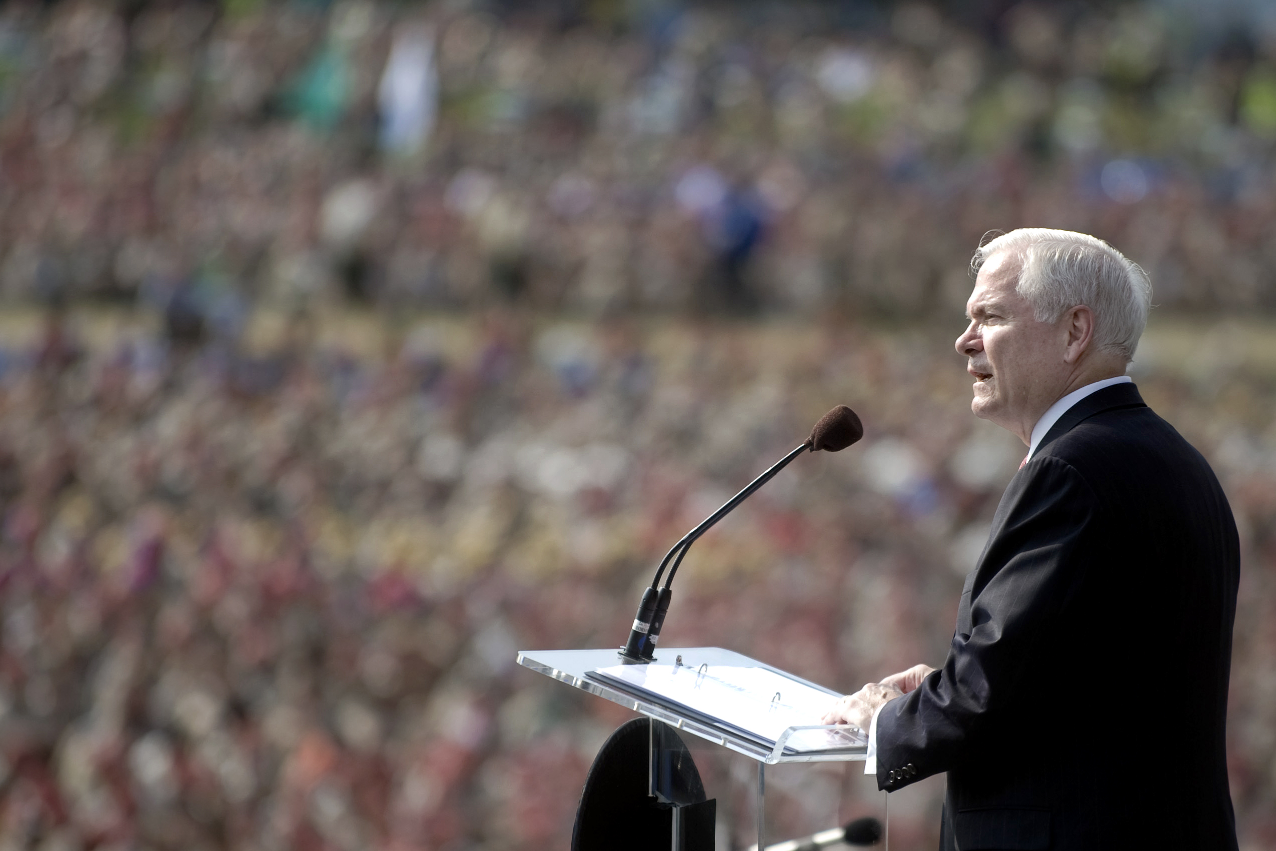 U.S. Defense Secretary Robert M. Gates addresses an audience of more than 45,000 scouts during the Boy Scouts of America 2010 National Scout Jamboree on Fort AP Hill, Va., July 28, 2010.